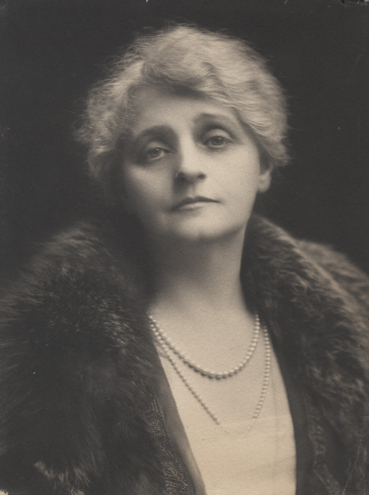 Portrait of Margaret, Lady Moir, electrical engineer, president of the Women's Engineering Society and the Electrical Association for Women